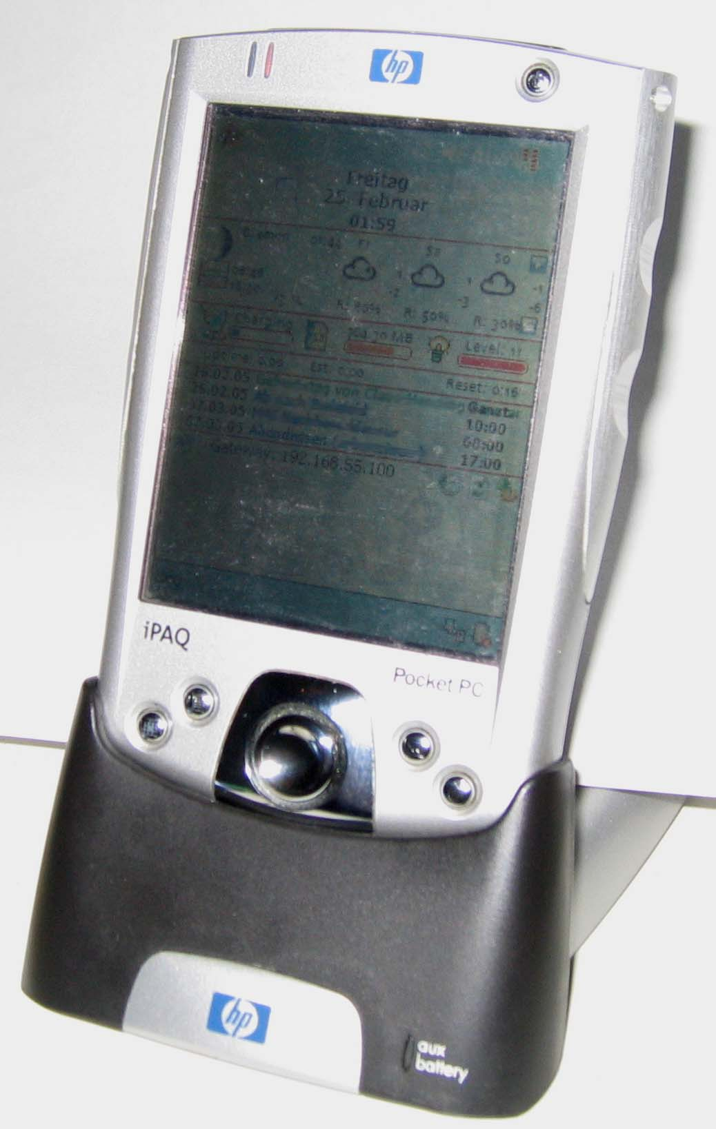 picture of a Hewlett-Packard iPAQ 2210 (Pocket PC, PDA). side frames replaced with aluminium parts because of manufacturing error.